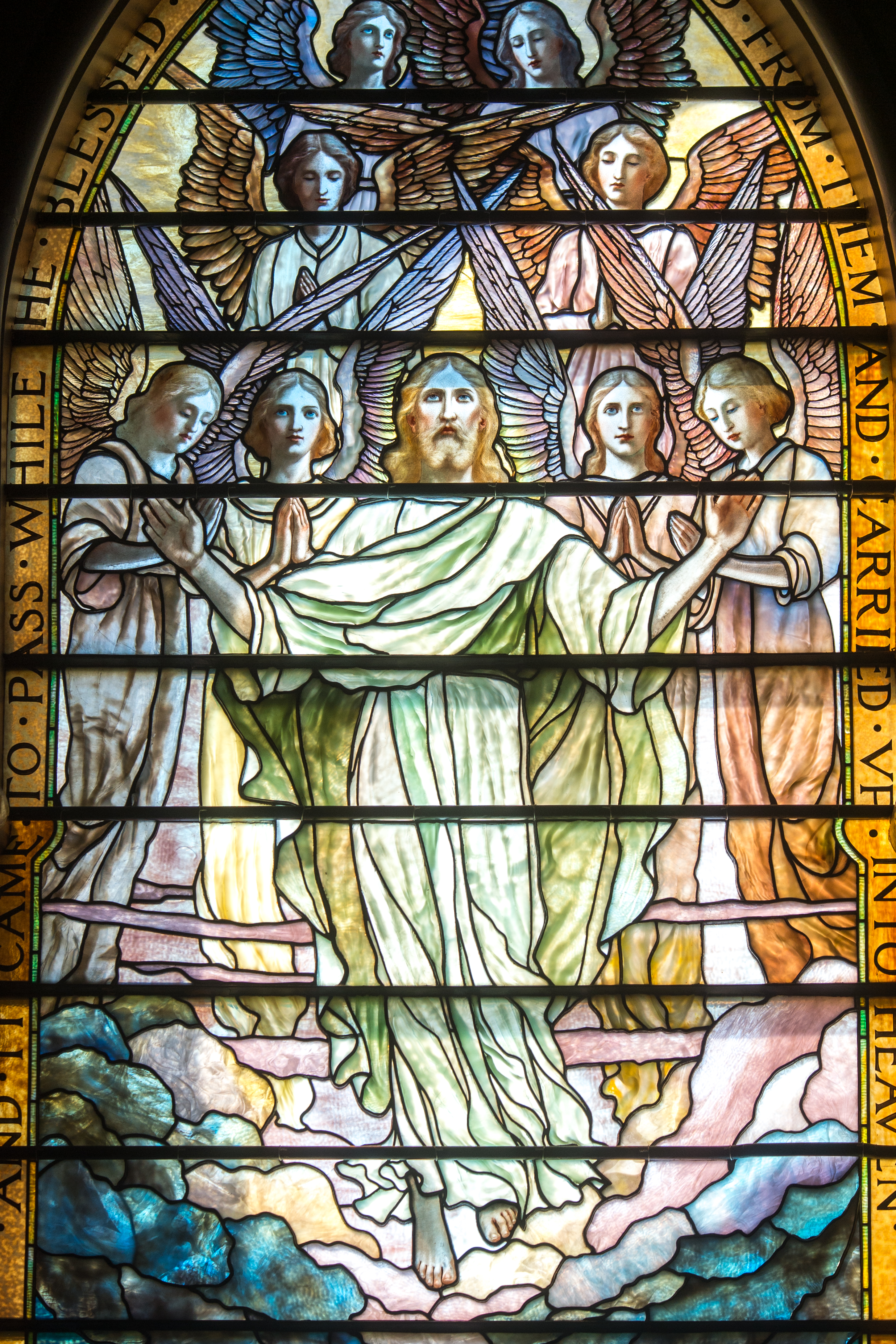 Photo I took of a Tiffany Glass panel located inside the Calgary United Methodist Church in Pittsburgh, PA.